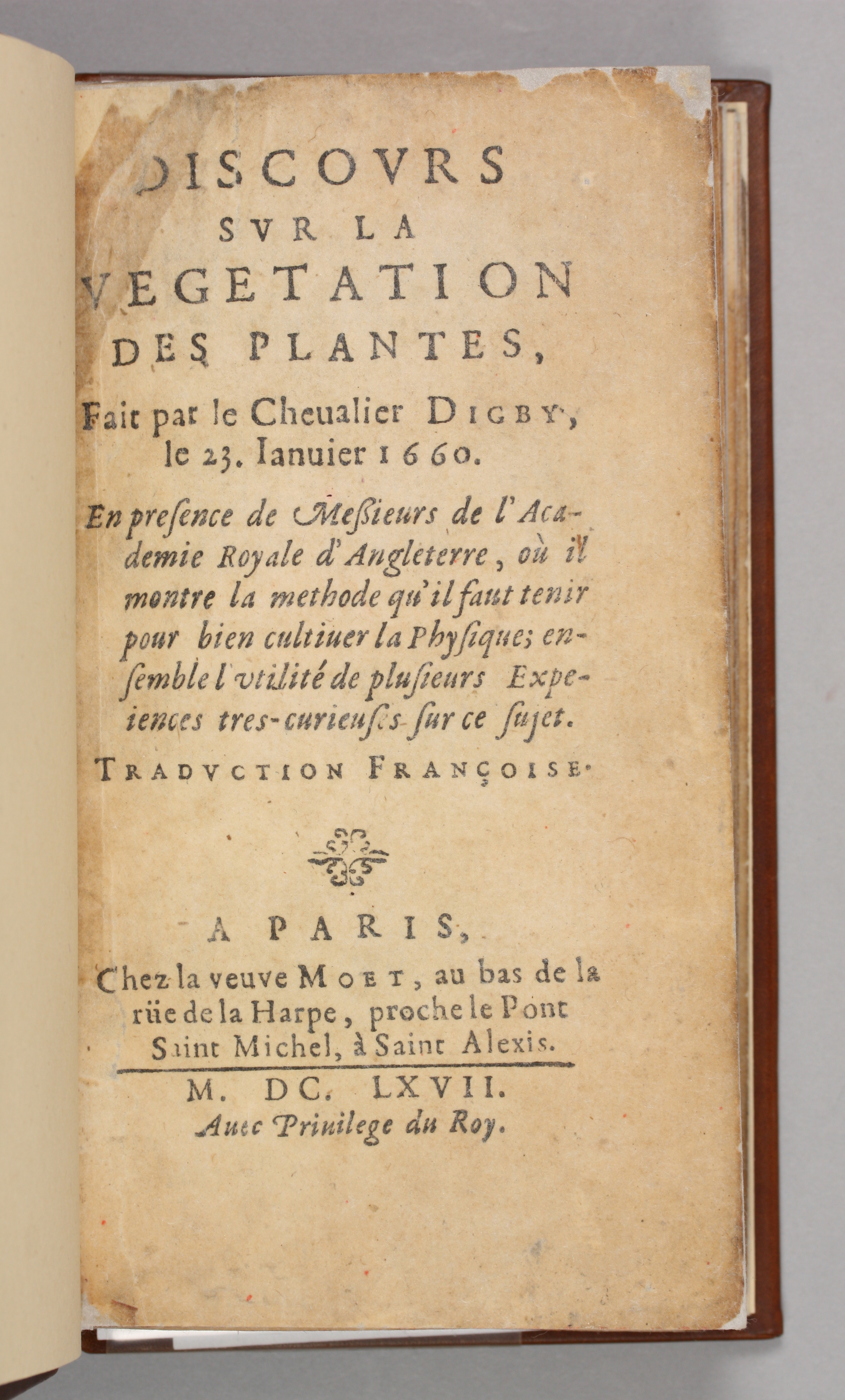 Discours sur la vegetation des plantes / fait par le chevalier Digby, le 23. janvier 1660, en presence de messieurs de l'Academie royale d'Angleterre, où il montre la methode qu'il faut tenir pour bien cultiver la physique, ensemble l'utilité de plusieurs expe[r]iences tres-curieuses sur ce sujet. A Paris : Chez la veuve Moet, 1667. Usually singled out for his work on the powder of sympathy, or weapon salve cure, Digby had wide interests in chemical and natural philosophical matters. His experiments on the growth of plants showed that nitre promoted plant growth. This finding entered into the very productive work of English scholars working on nitro-aerial particles, a very interesting forerunner of the discovery of oxygen. This is the French translation of his A Discourse Concerning the Vegetation of Plants (London, 1661).